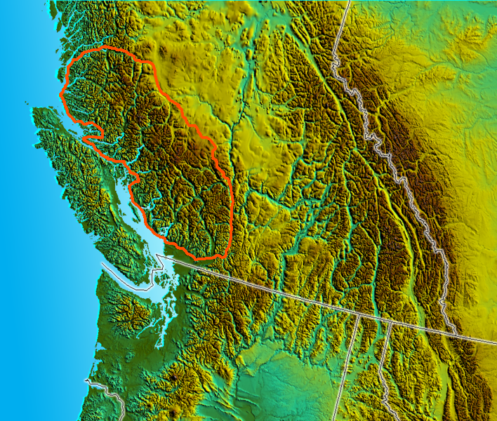 adapted from File:South BC-NW USA-relief.png which is in Wikimedia Commons